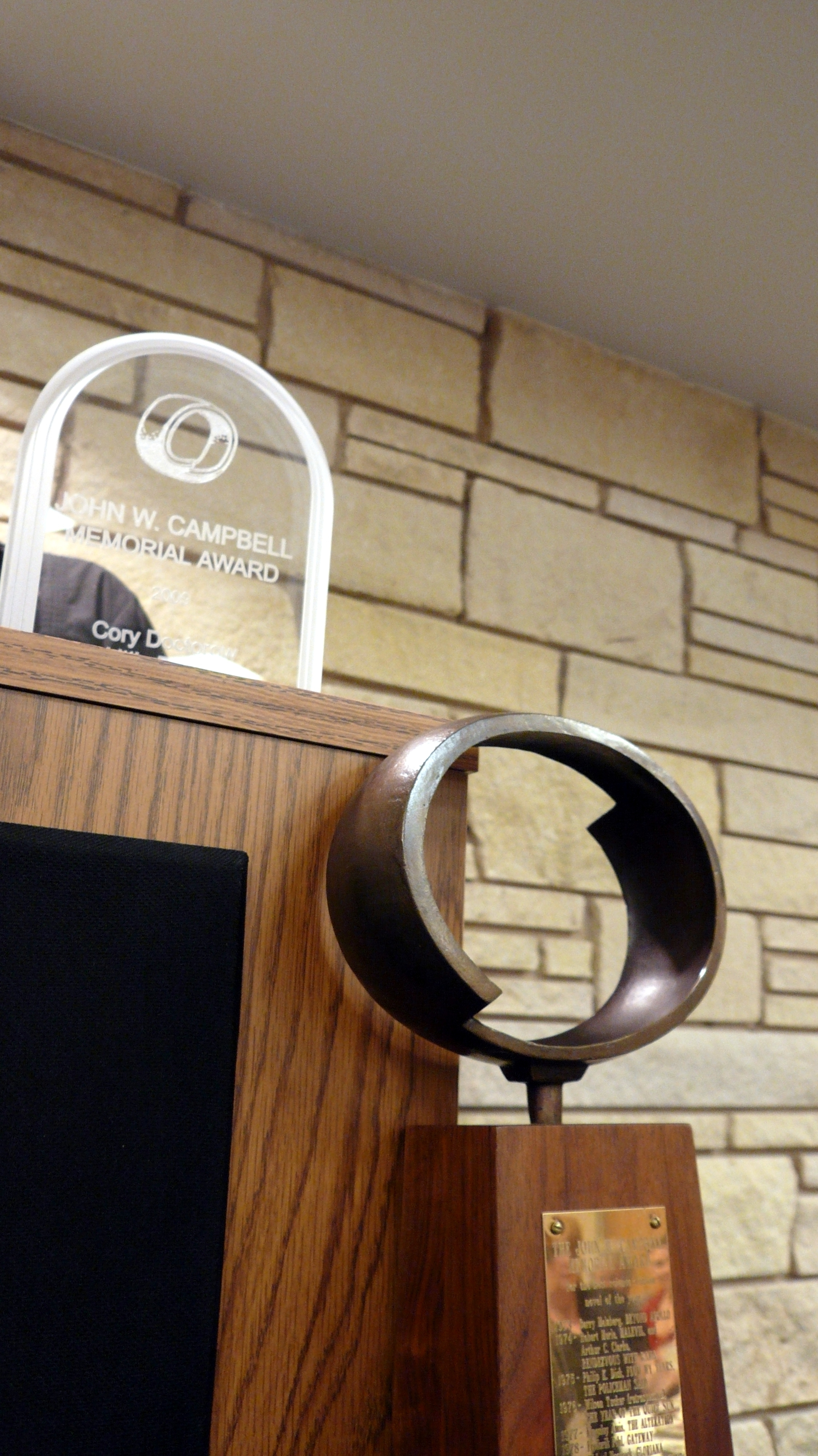 Photo of the John W. Campbell Memorial Award for Best Science Fiction Novel permanent trophy and individual trophy (to Cory Doctorow for Little Brother, 2009)